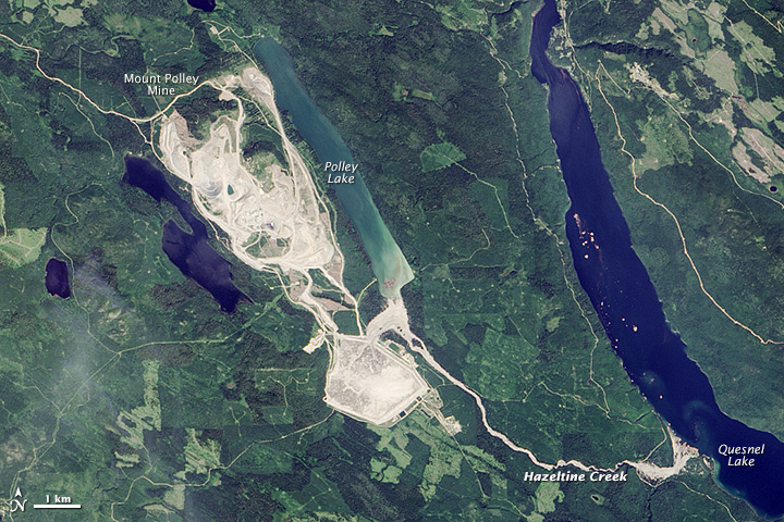 Aerial view of the earthen dam at Mount Polley Mine in British Columbia that breached on August 4, 2014, sending contaminated water into nearby lakes.